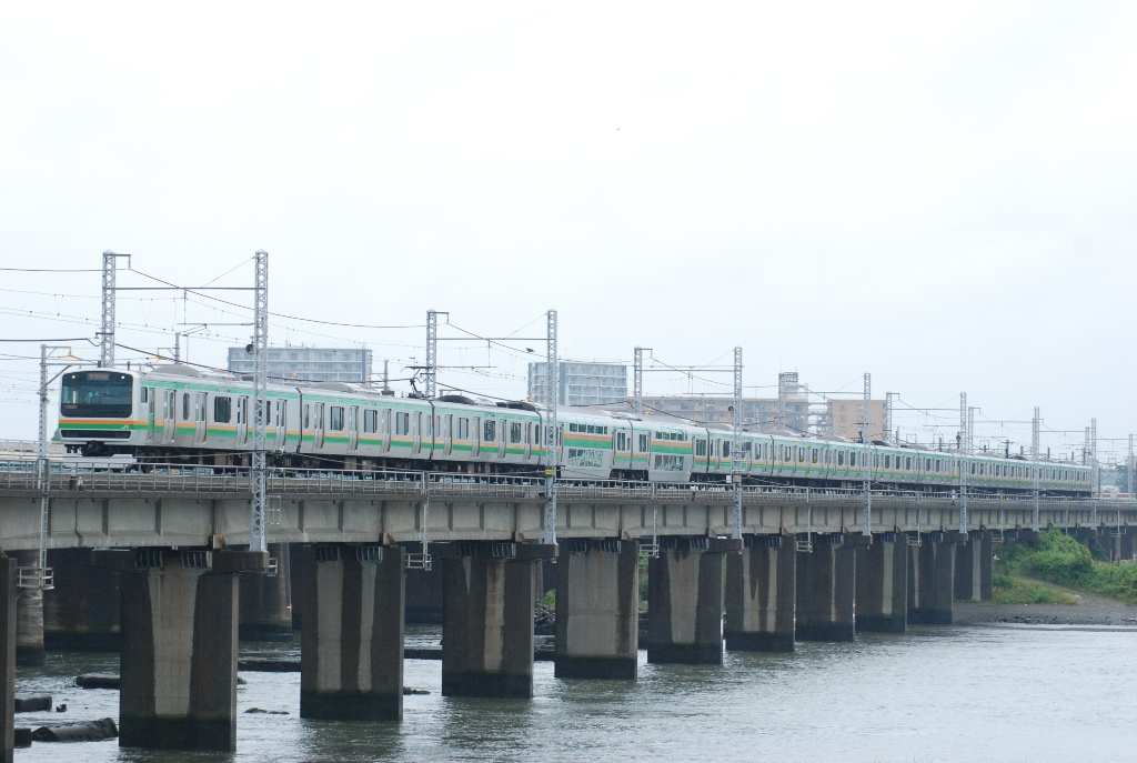 Tokaido Line, Sagami river at Kanagawa, Japan.